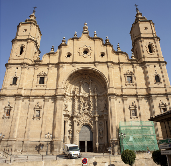 Iglesia de Santa María la Mayor; Alcañiz; Aragon, Teruel, Spain; ref: PM_052216_E_Alcaniz; ; Fachada principal; Photographer: Paul M.R. Maeyaert; © Paul M.R. Maeyaert; ; Cultural heritage; Europe/Spain/Alcañiz; LoCloud selectie